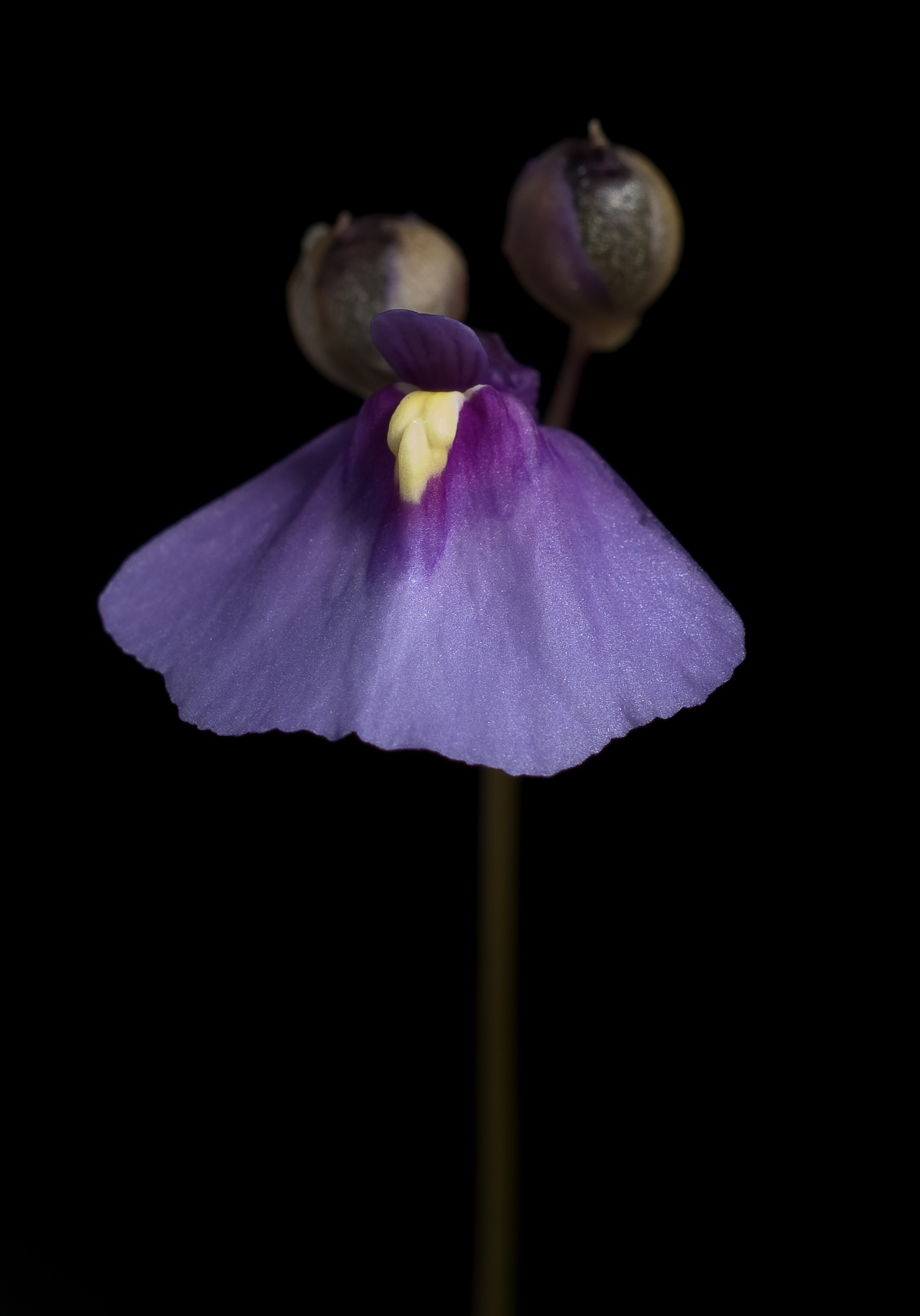 Flower and fruits of Utricularia dichotoma from Kingston, Tasmania, Australia, in cultivation. Image has been used on Micronesian postage stamp.